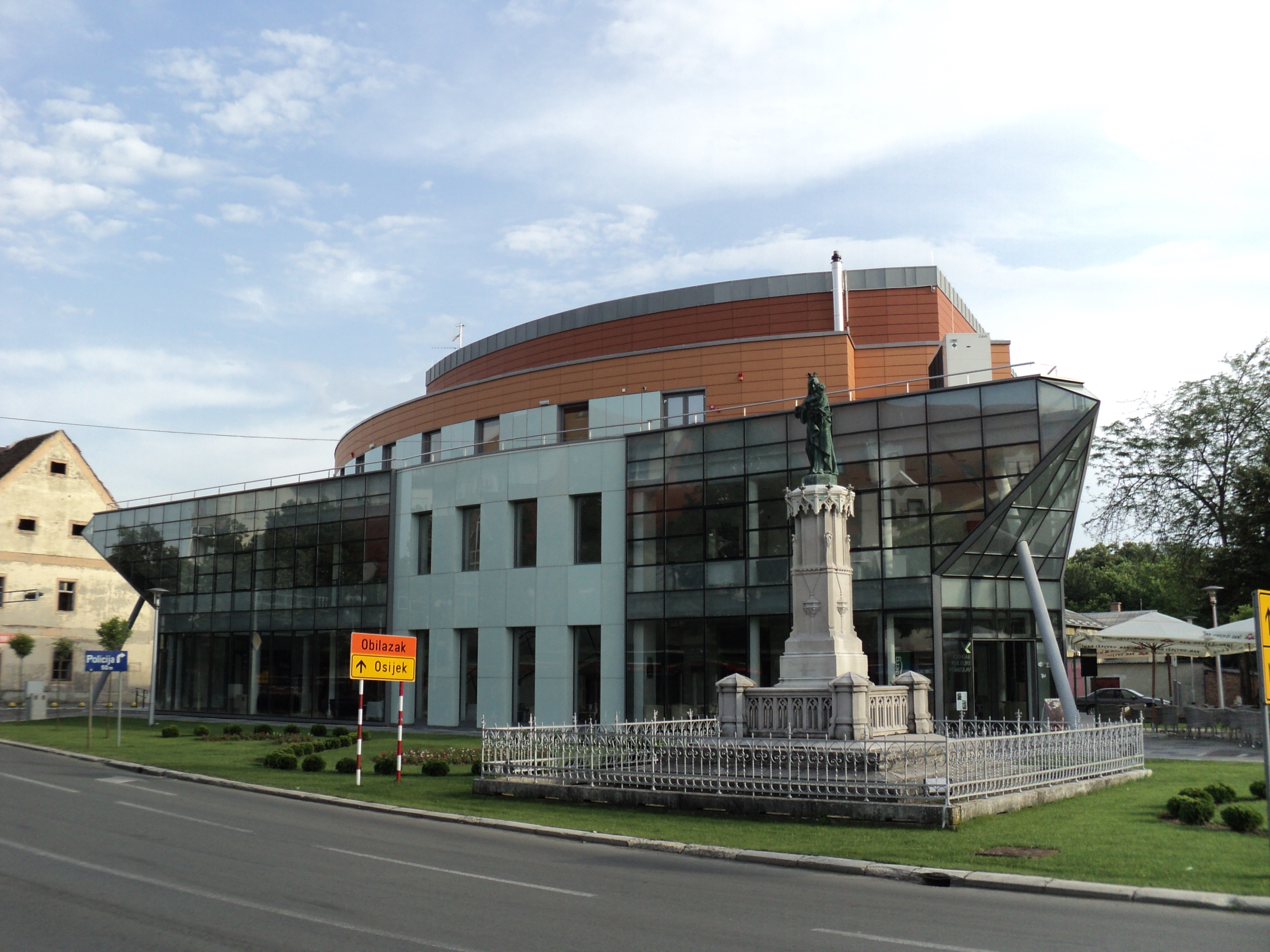 Cultural center in Valpovo.